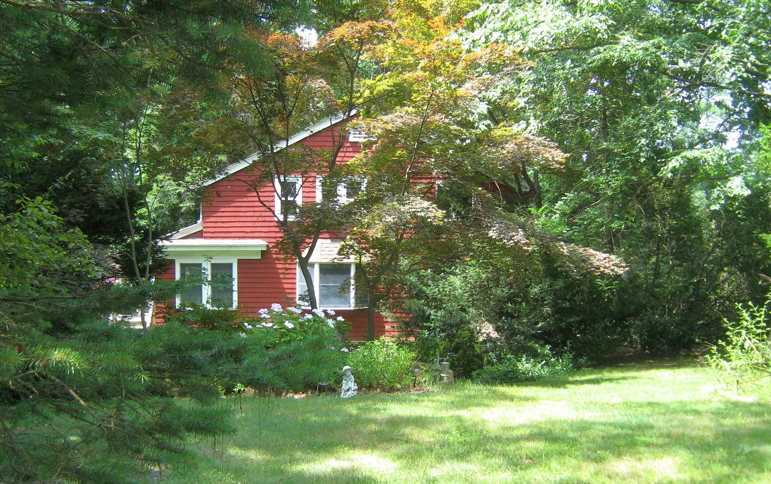 The home of poet, essayist and critic Joyce Kilmer (1886-1918)and his family in Mahwah, New Jersey. Here he wrote the beloved poem "Trees" in 1913.